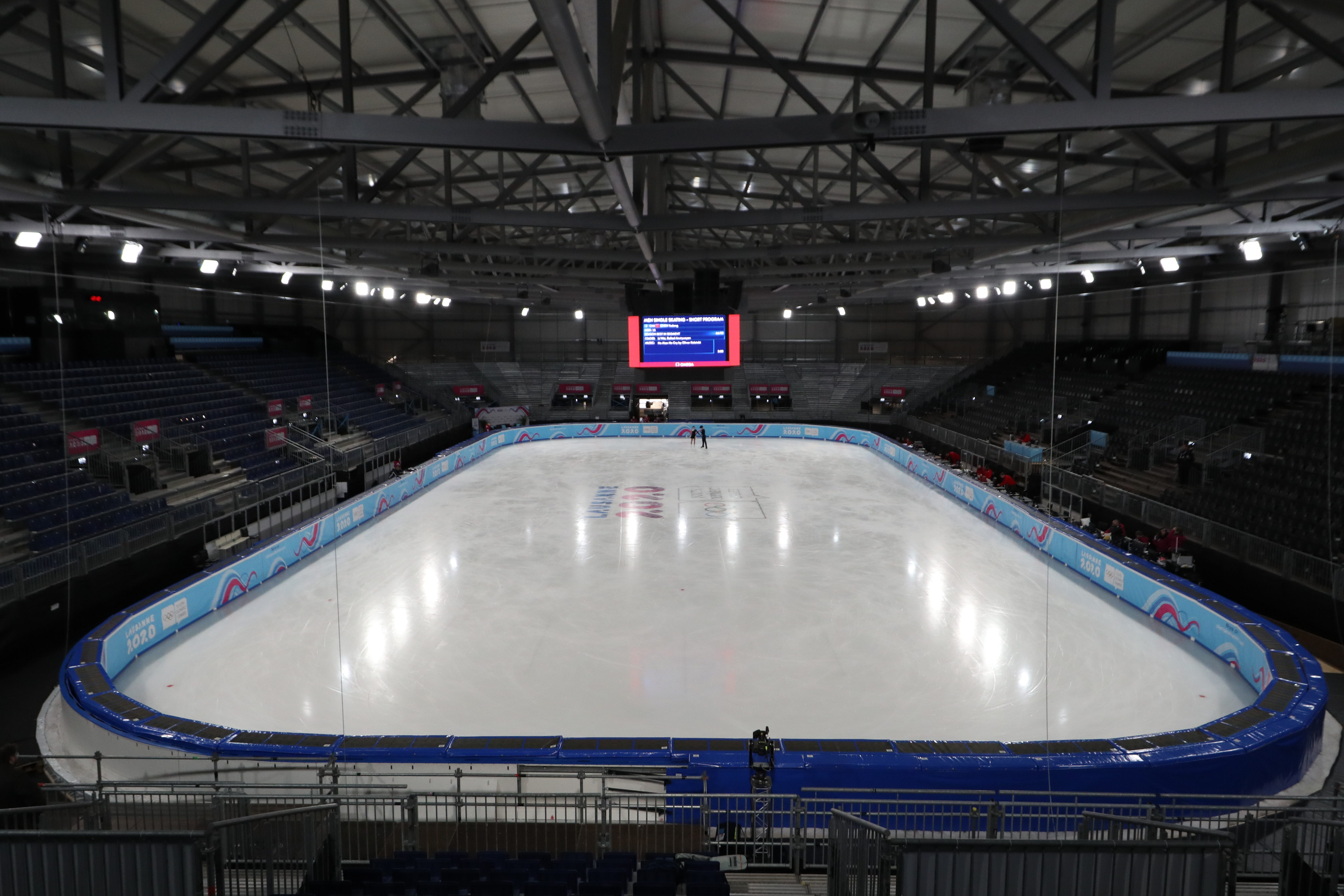 Lausanne Skating Arena (Patinoire de Malley)